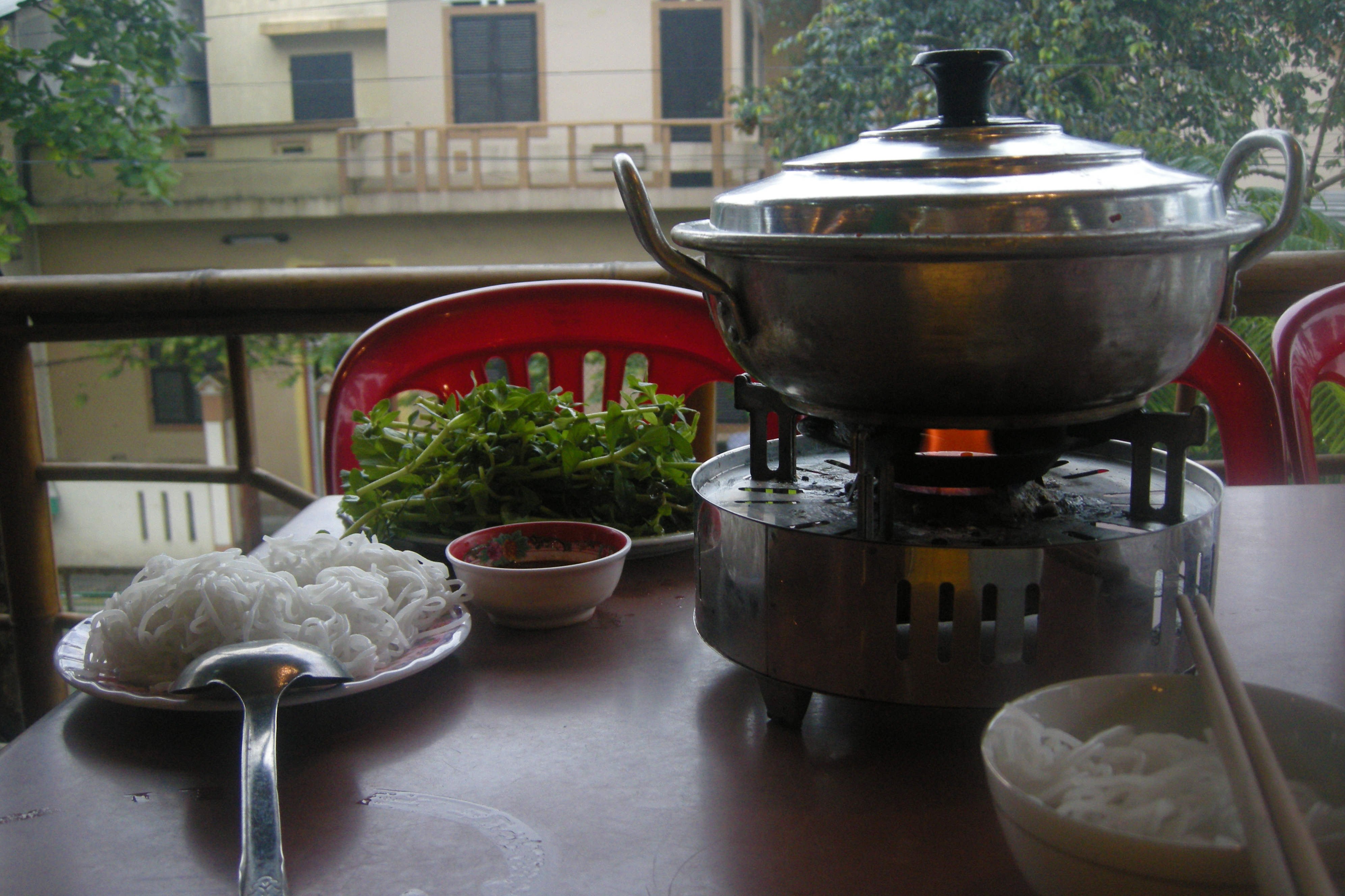 Pho/Banh Da Cua noodle soup in Chinese style (hot pot).